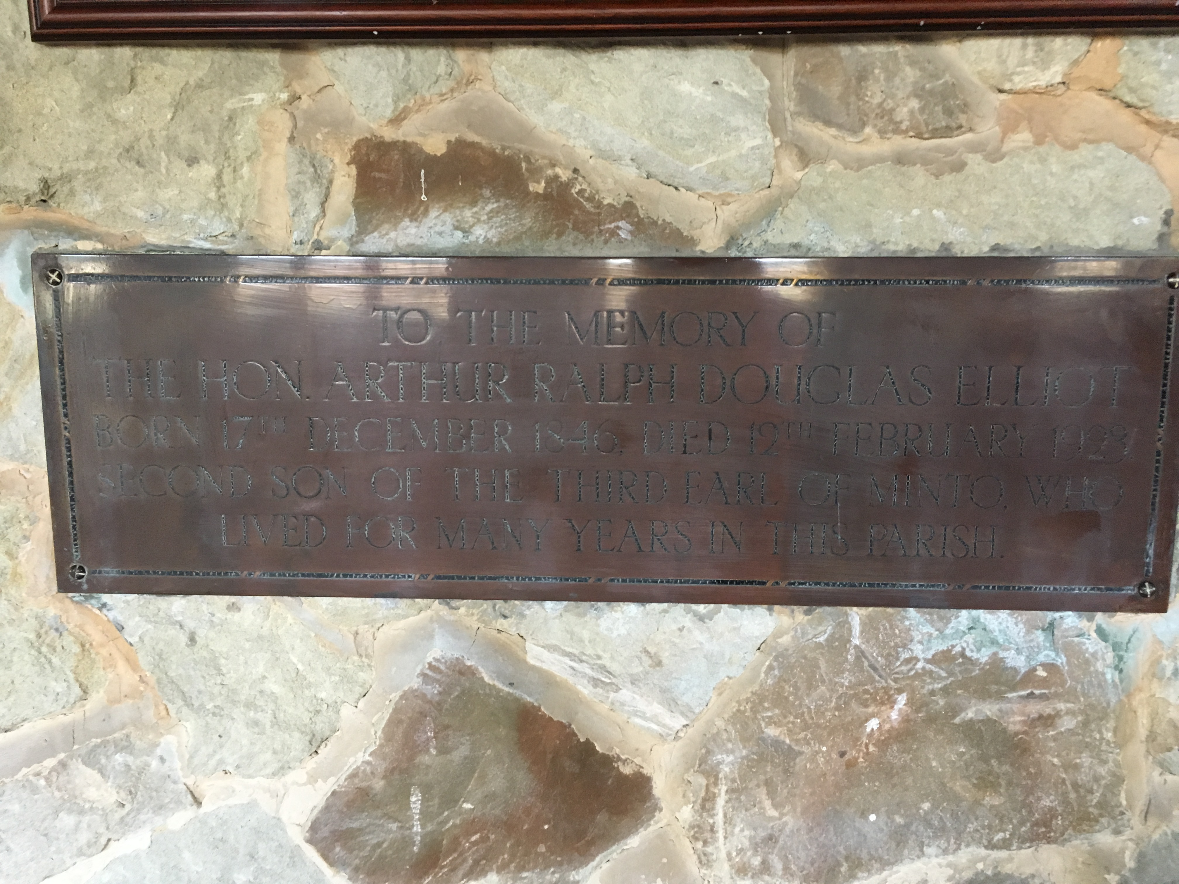 Inscription in memory of Arthur Elliot in St Agnes’ Church, Freshwater